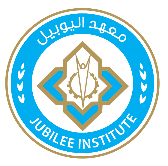 Logo of Jubilee school in Amman, Jordan